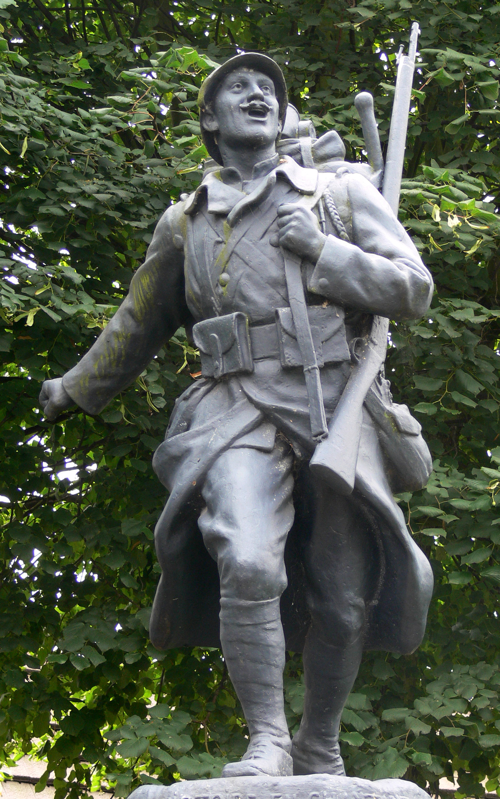 "La victoire en chantant" (Victory singing", = War (14-18) memorial in Phalempin (north of France, near Lille). Cf. "Chant du Départ" (French for "Song of the Departure") is a revolutionary and war song written by Étienne Nicolas Méhul (music) and Marie-Joseph Chénier (words) in 1794. It was the official anthem of the First Empire.